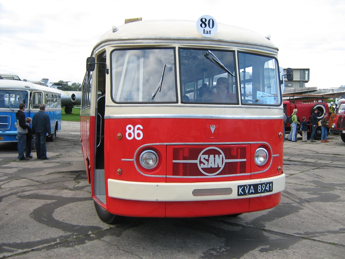 An old San H01B bus (#86) built in 1959 and operated by MPK Kraków in Kraków, Poland.